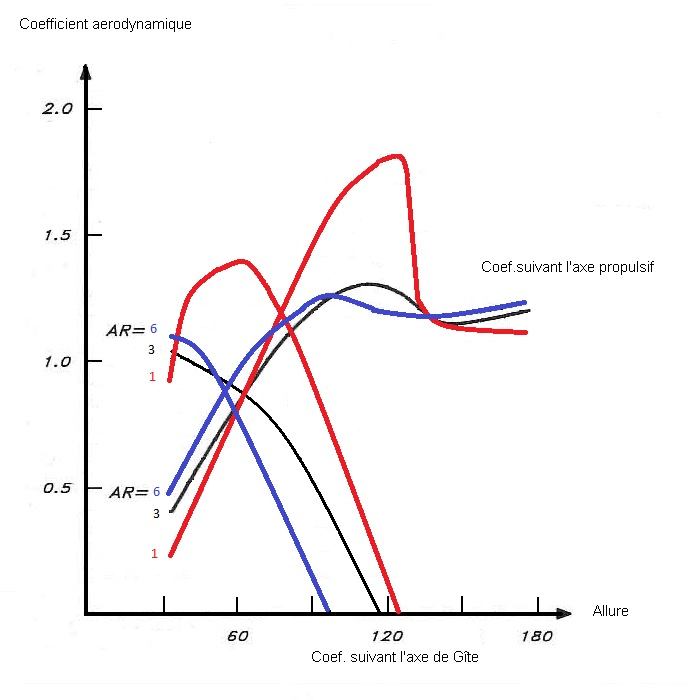 influence of aspect ration on driving force and side force AR= aspect ration